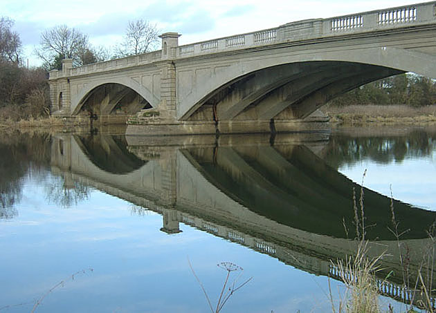 Under Gunthorpe bridge